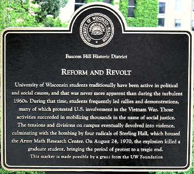 Site of Sterling Hall bombing, University of Wisconsin Copyright ©2002 by Daniel P. B. Smith. Licensed under the terms of the Wikipedia copyright.